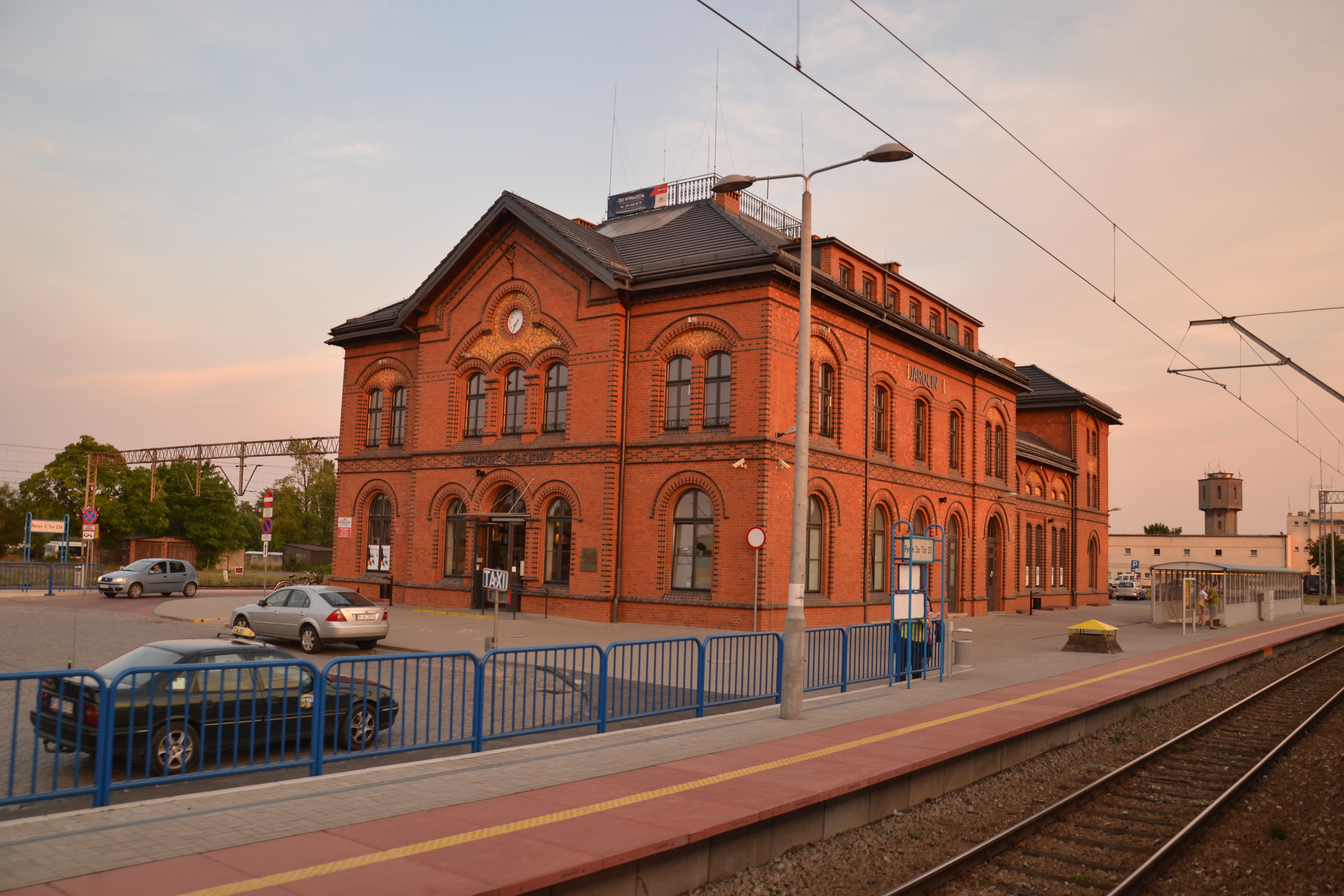 Stacja Jarocin This photo was taken during Railway Wikiexpedition 2015 set up by Wikimedia Polska Association in cooperation with Fundacja Grupy PKP. You can see all photographs in category Wikiekspedycja kolejowa 2015.